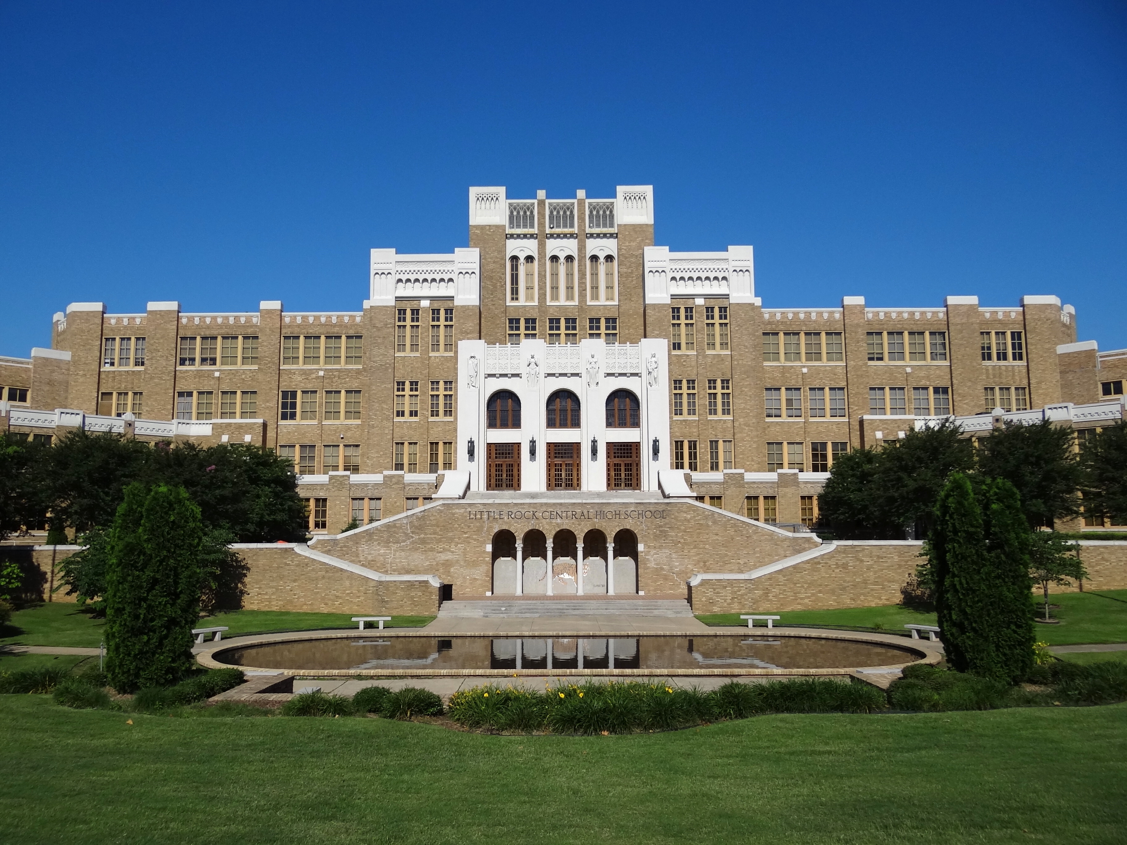 Facade of Central High School - Little Rock - Arkansas - USA - 01